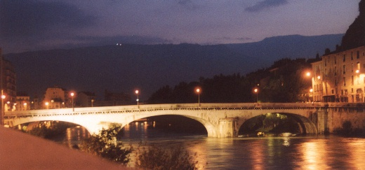 Isère River in city centre of Grenoble (Isère, France) with view of the Marius Gontard Bridge.